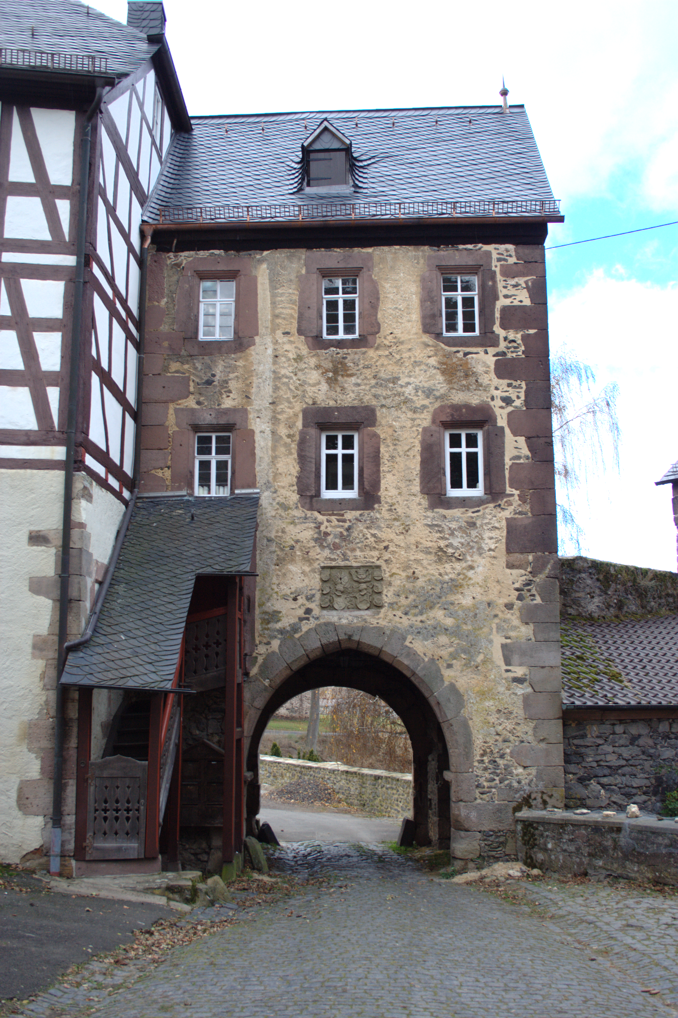 Schloss Eisenbach (outer gate - rear side) near Frischborn, Lauterbach, Hessen, Germany